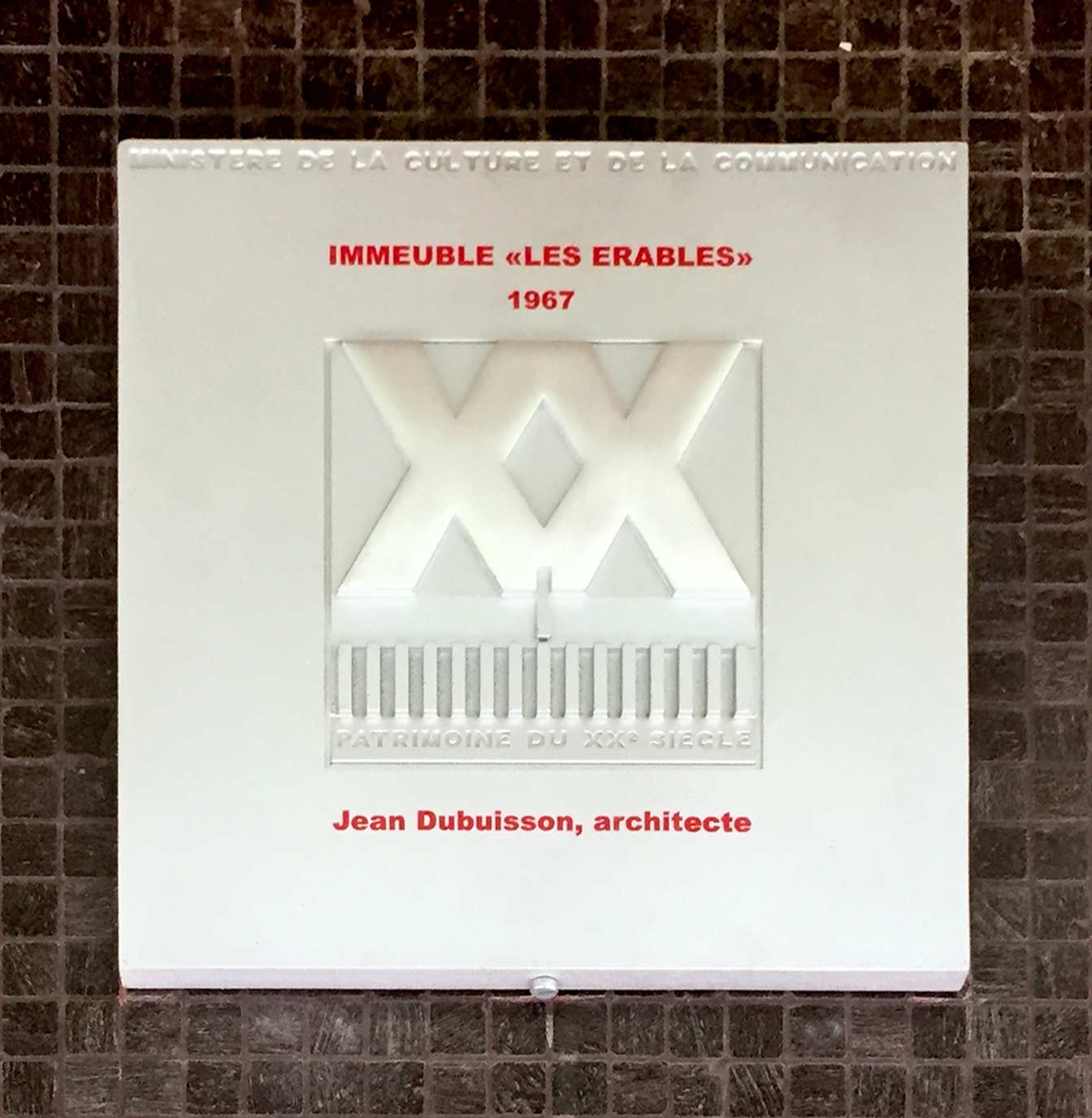 This photograph was taken with an iPhone 6